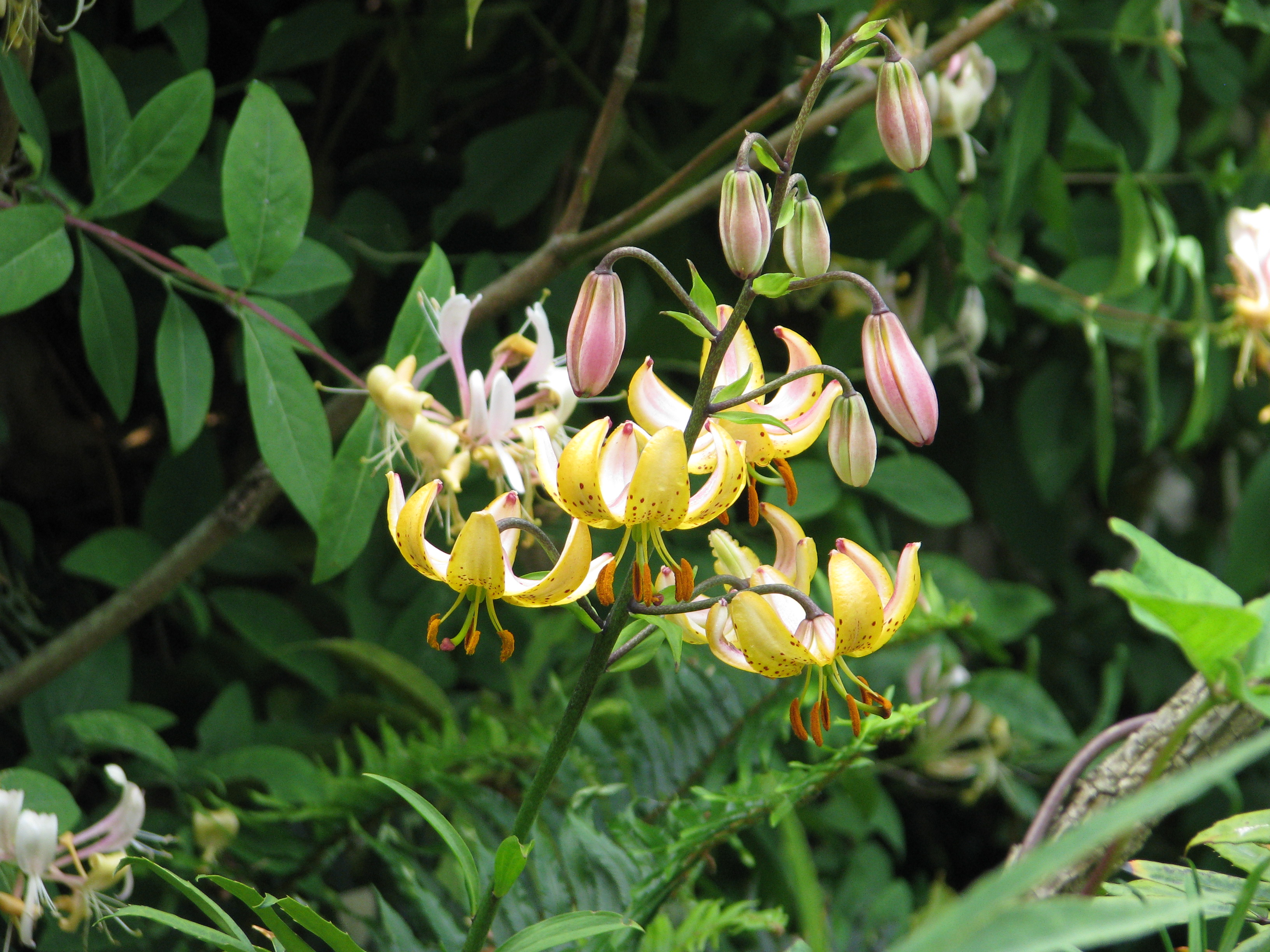 Lilium Mrs R.O.Backhouse